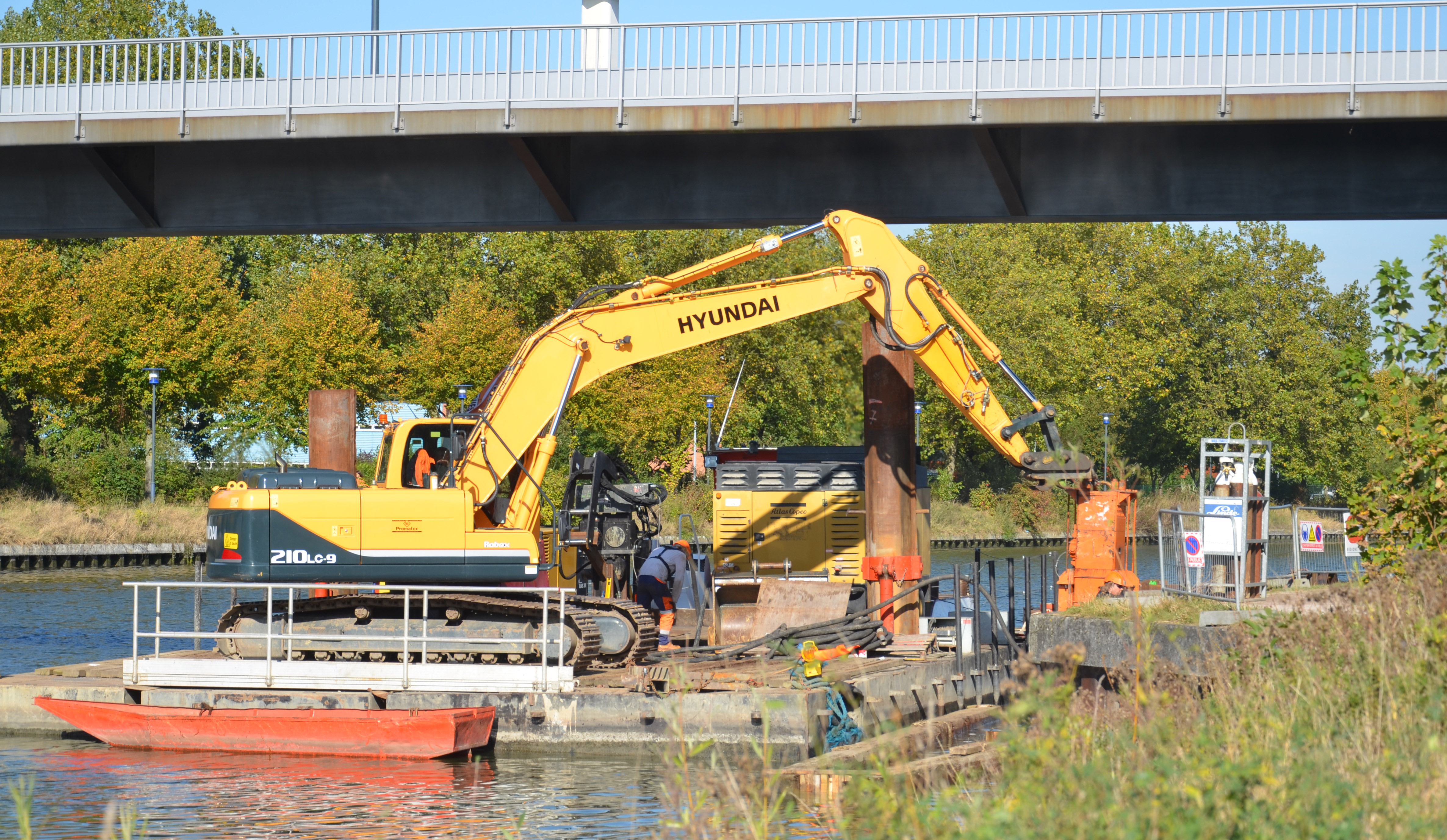 Installation of piles (Sheet pile wall ) on the river Deûle channeled (Canal Deûle), Lille 2012